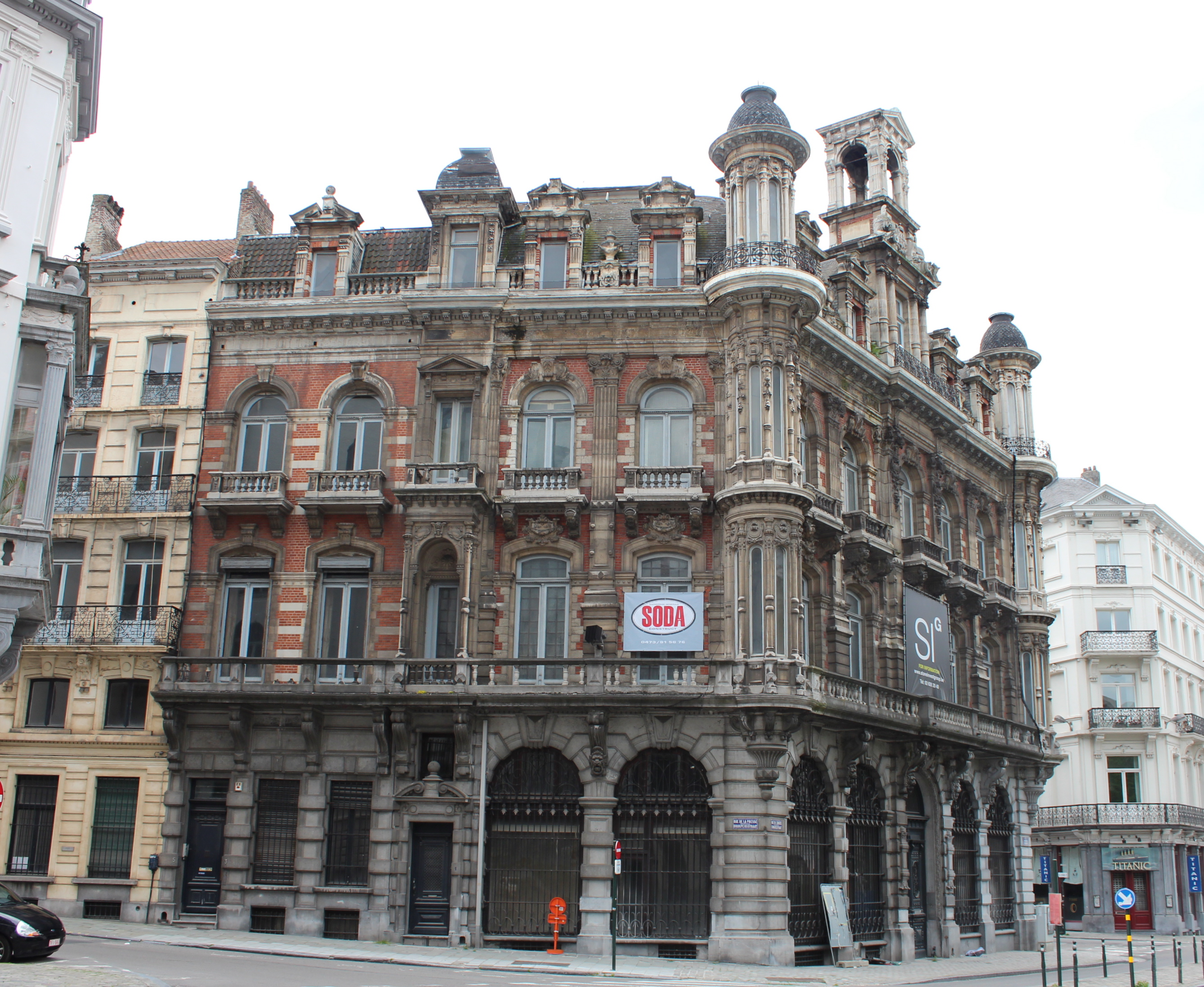 Ancien Hôtel de Knuyt de Vosmaer, Construit en 1878-1879 par Joseph-Jean NAERT. RUE DU CONGRES 33 - 33, RUE DE L'ENSEIGNEMENT 91 - 97